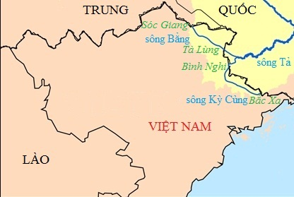 Bằng River and Kỳ Cùng River of Việt Nam